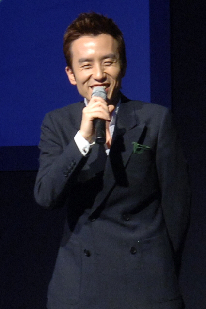 You Hee-Yeol at the LG Optimus LTE Showcase evant